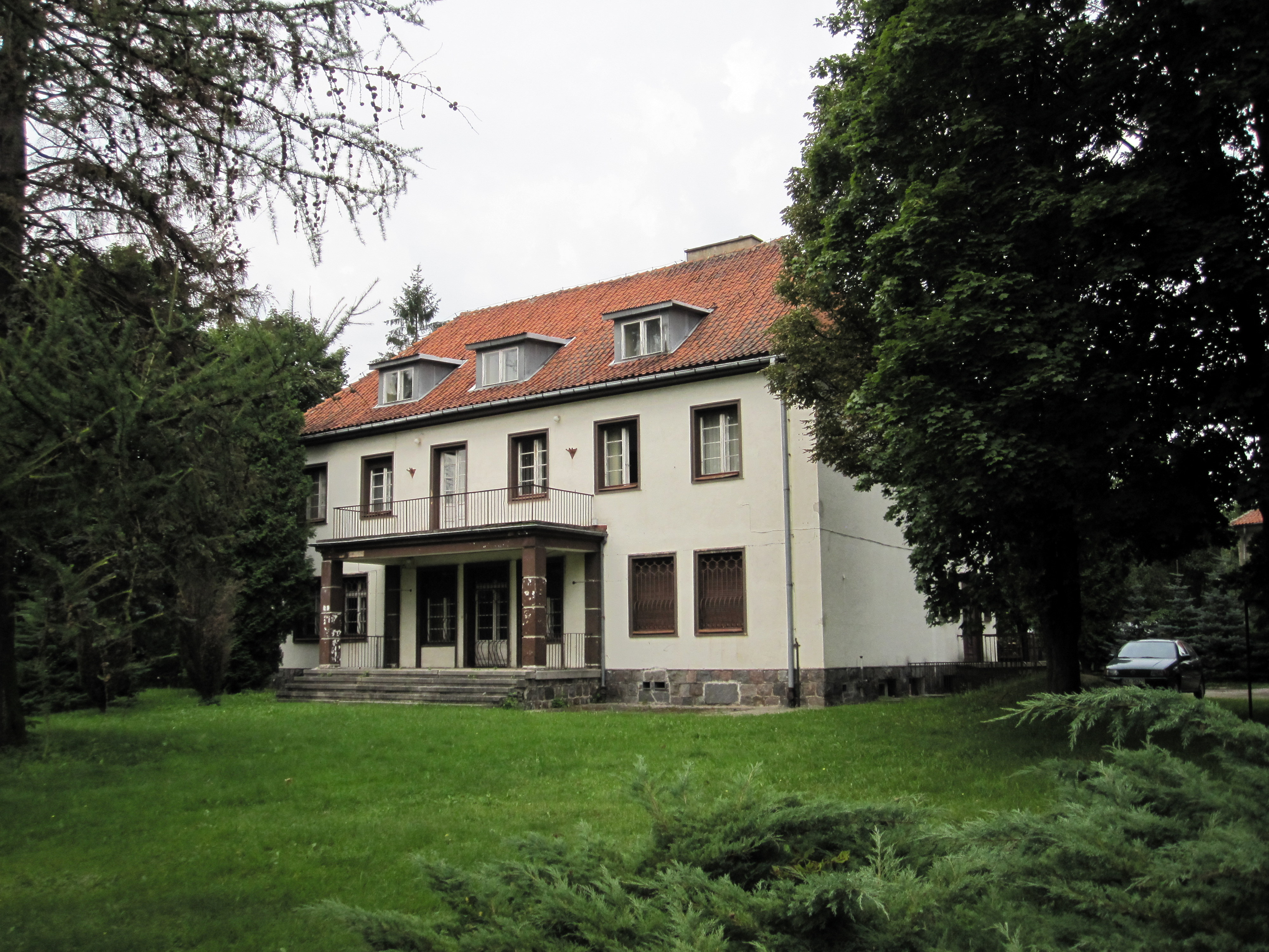 Ludowa Street in Biskupiec